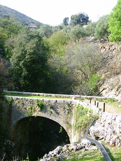 A town of Beli at the Cres Island, Croatia